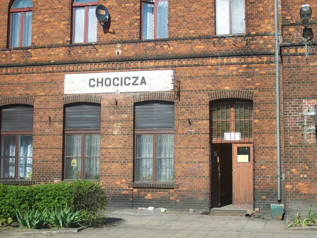 Old train station in Chocicza - village in Poland, in Greater Poland Voivodeship